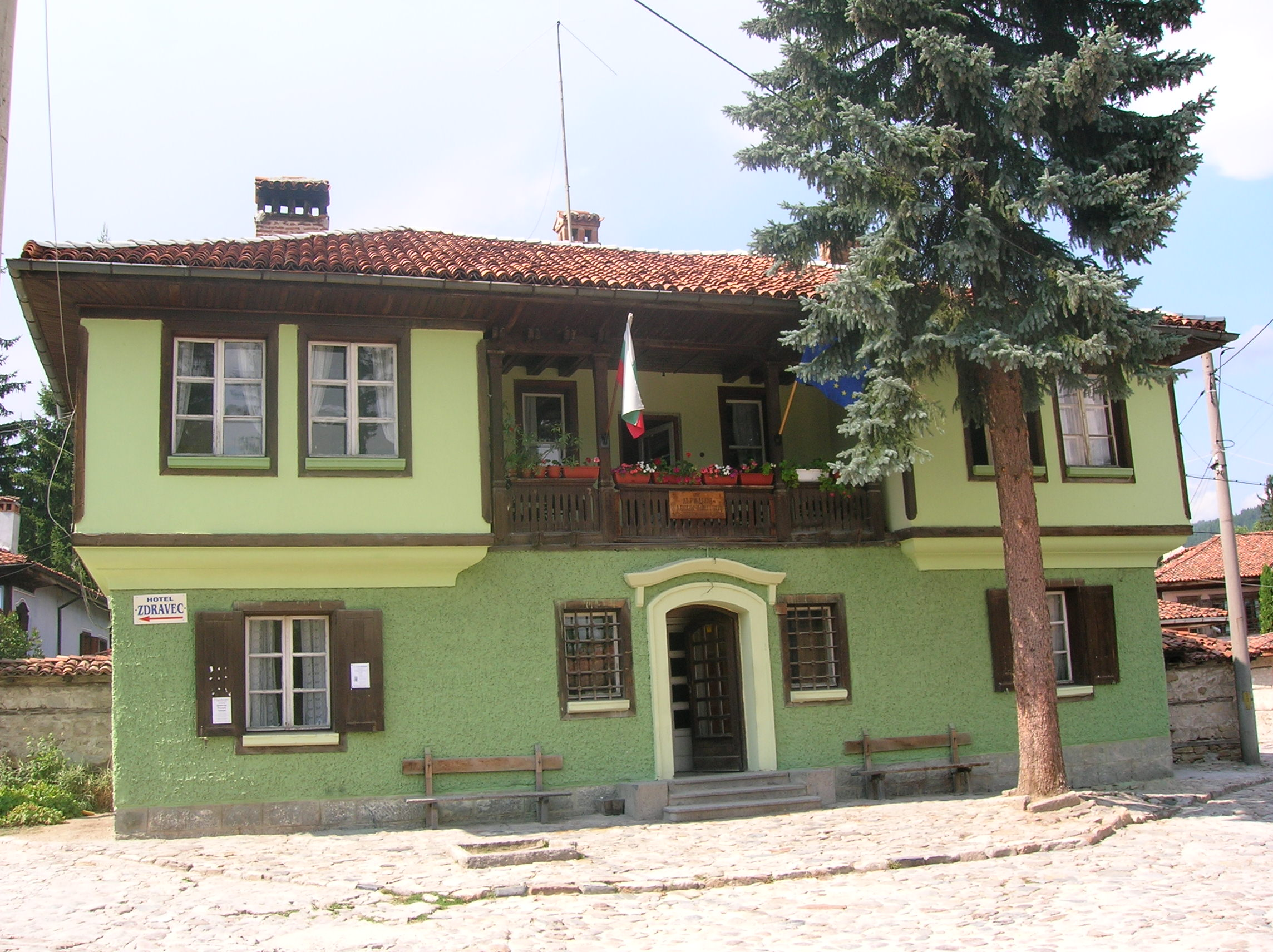 House in Koprivshtitsa (Bulgaria). Forestry house